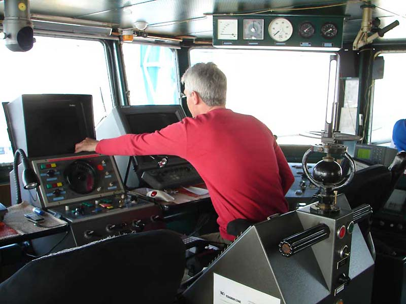 The feeder ship Ingvild in Brest : the bridge.